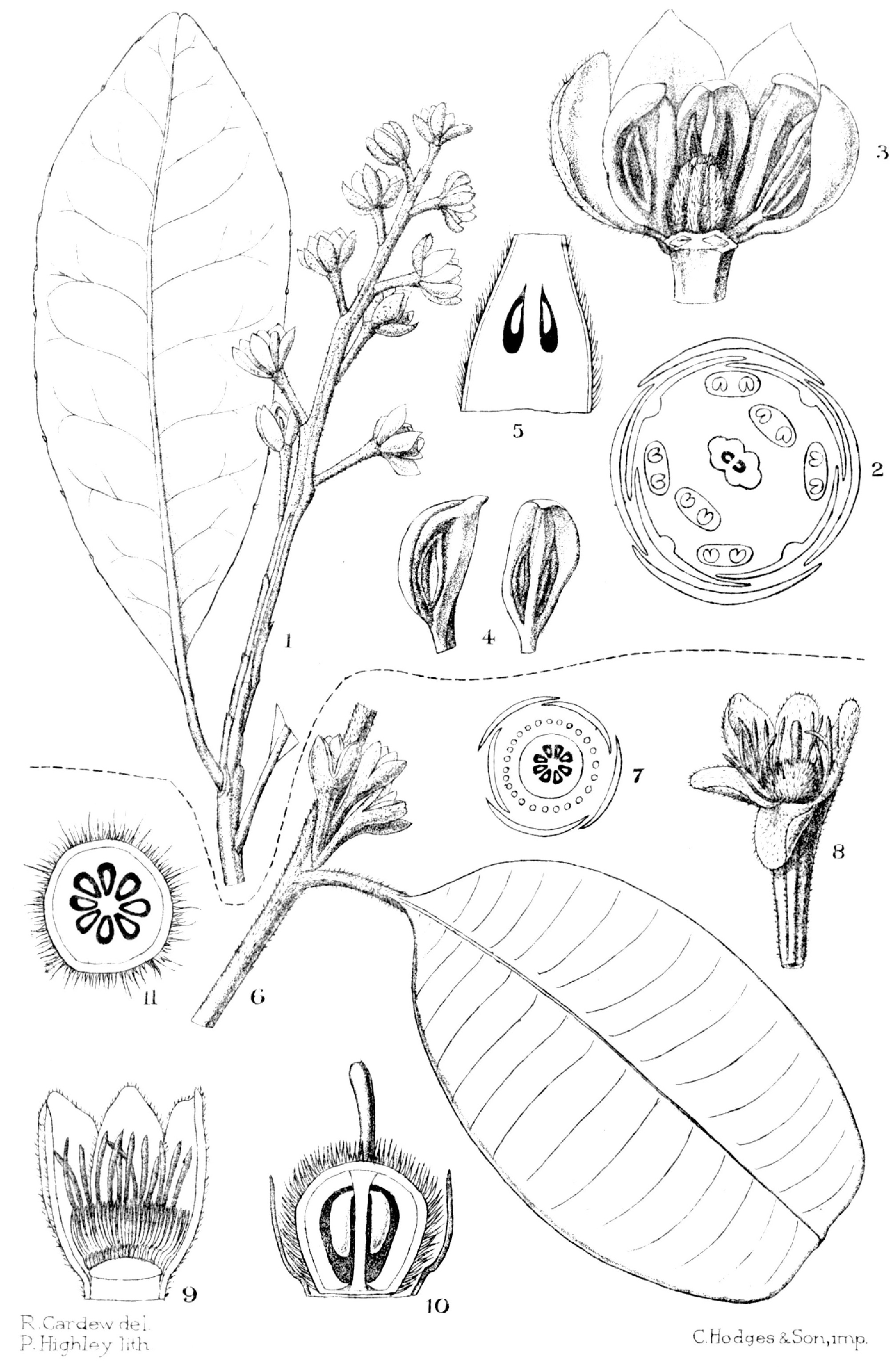 Sphenostemon comptonii line drawing